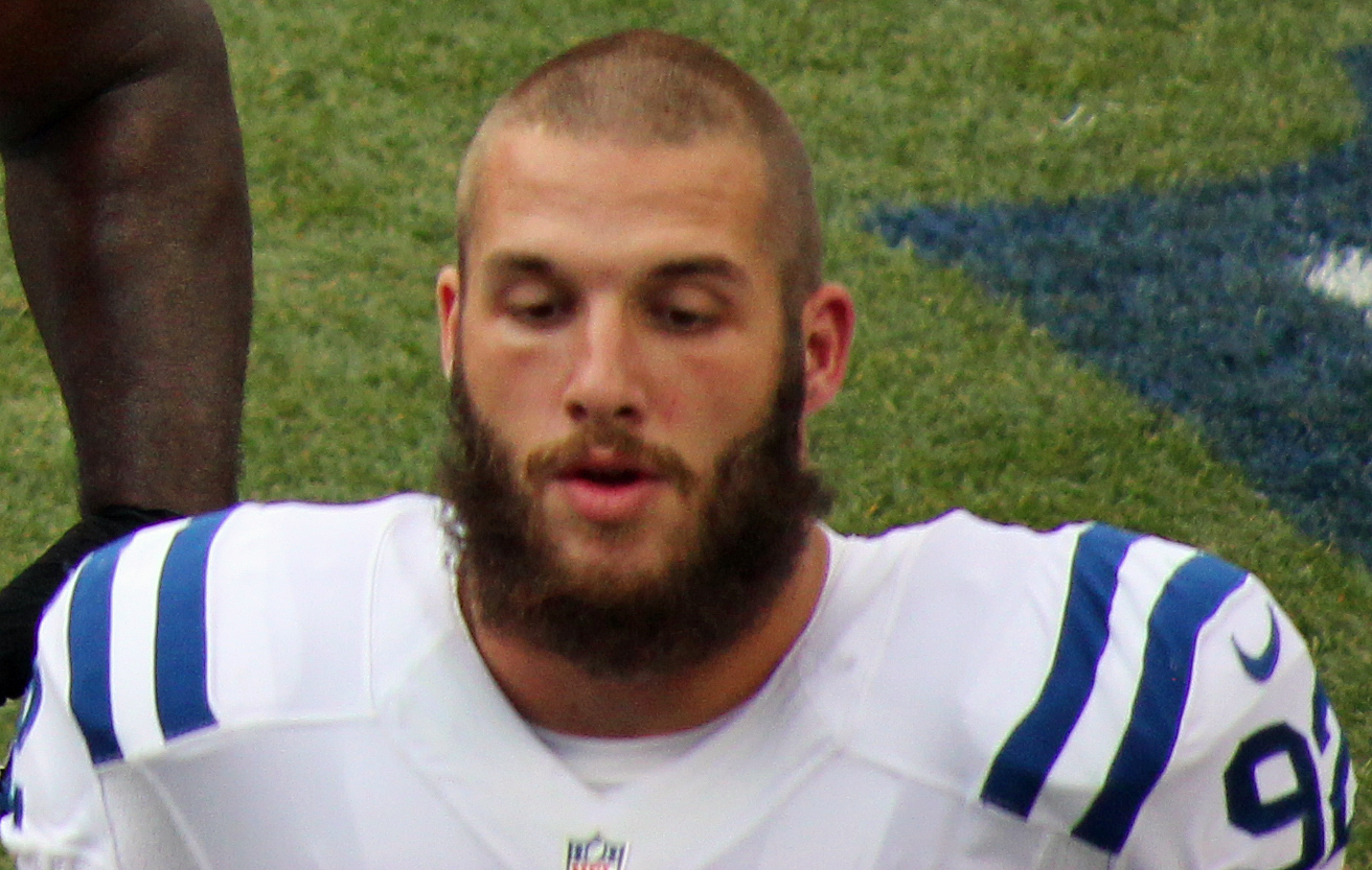 Björn Werner, a player on the National Football League.